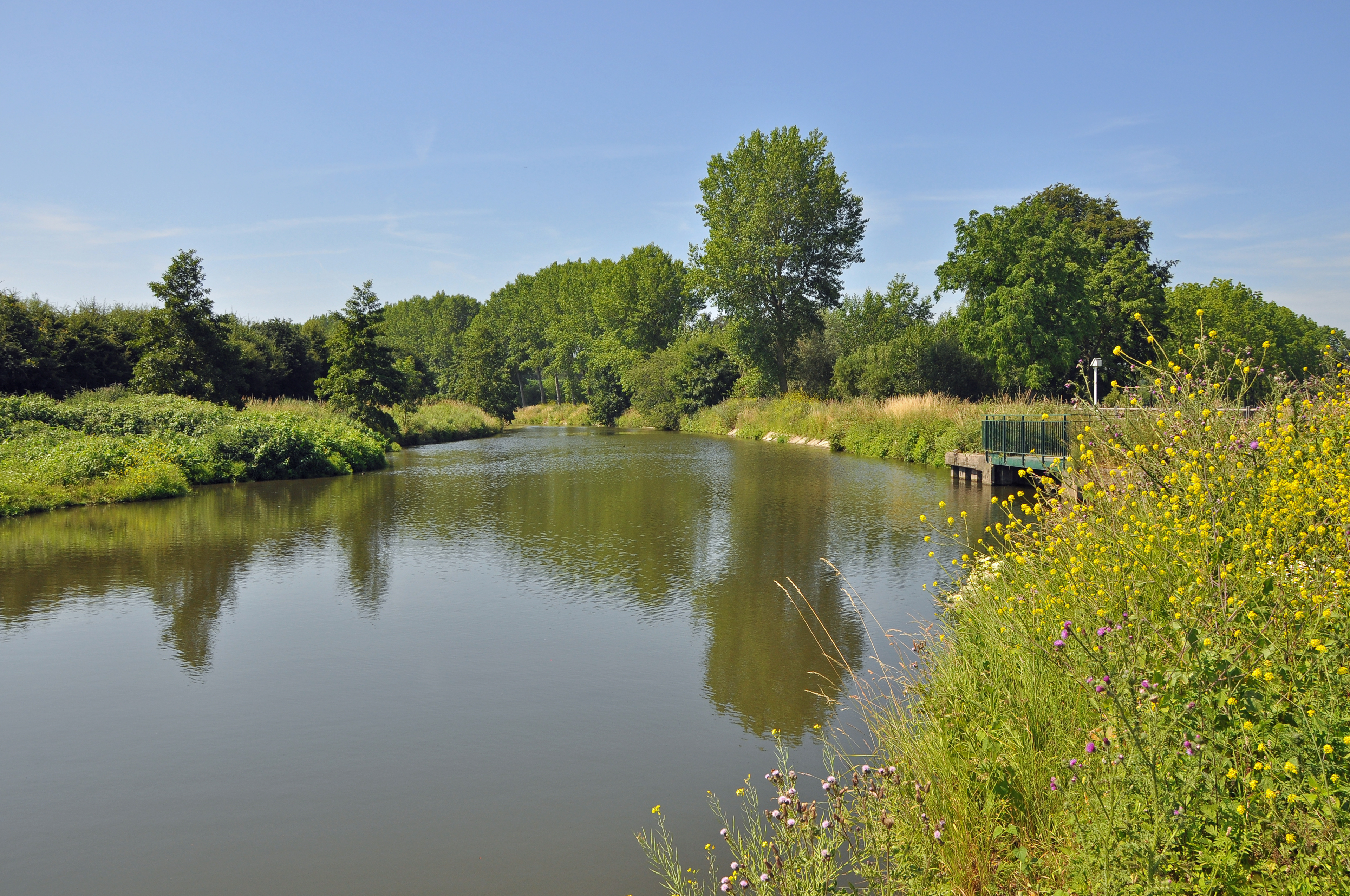 Oostkamp (Belgium): the Rivier brook; left: nature reserve Warandeputten